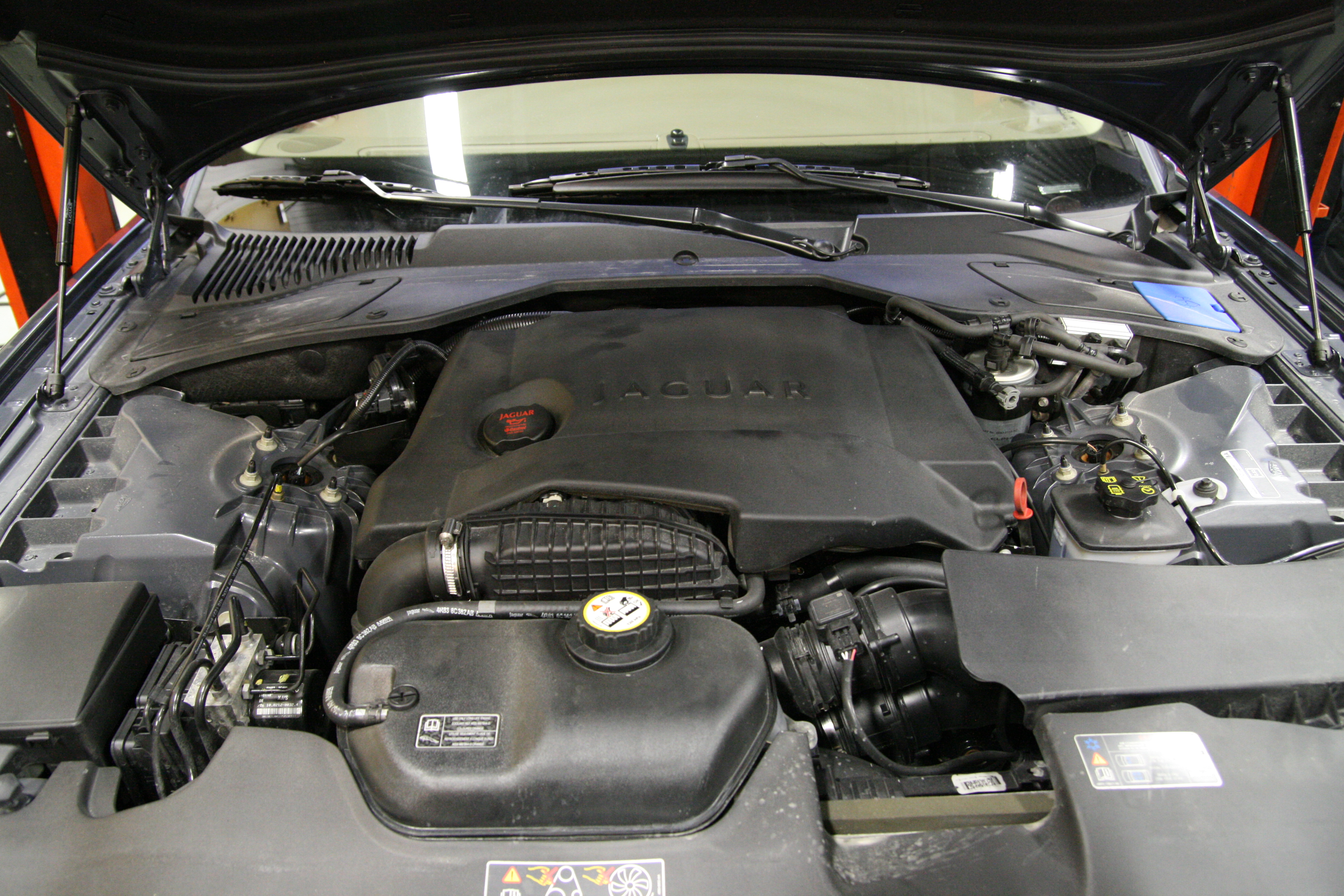 The engine bay of a 2006 Jaguar Sovereign, showing the 2.7 liter V6 turbo diesel engine.